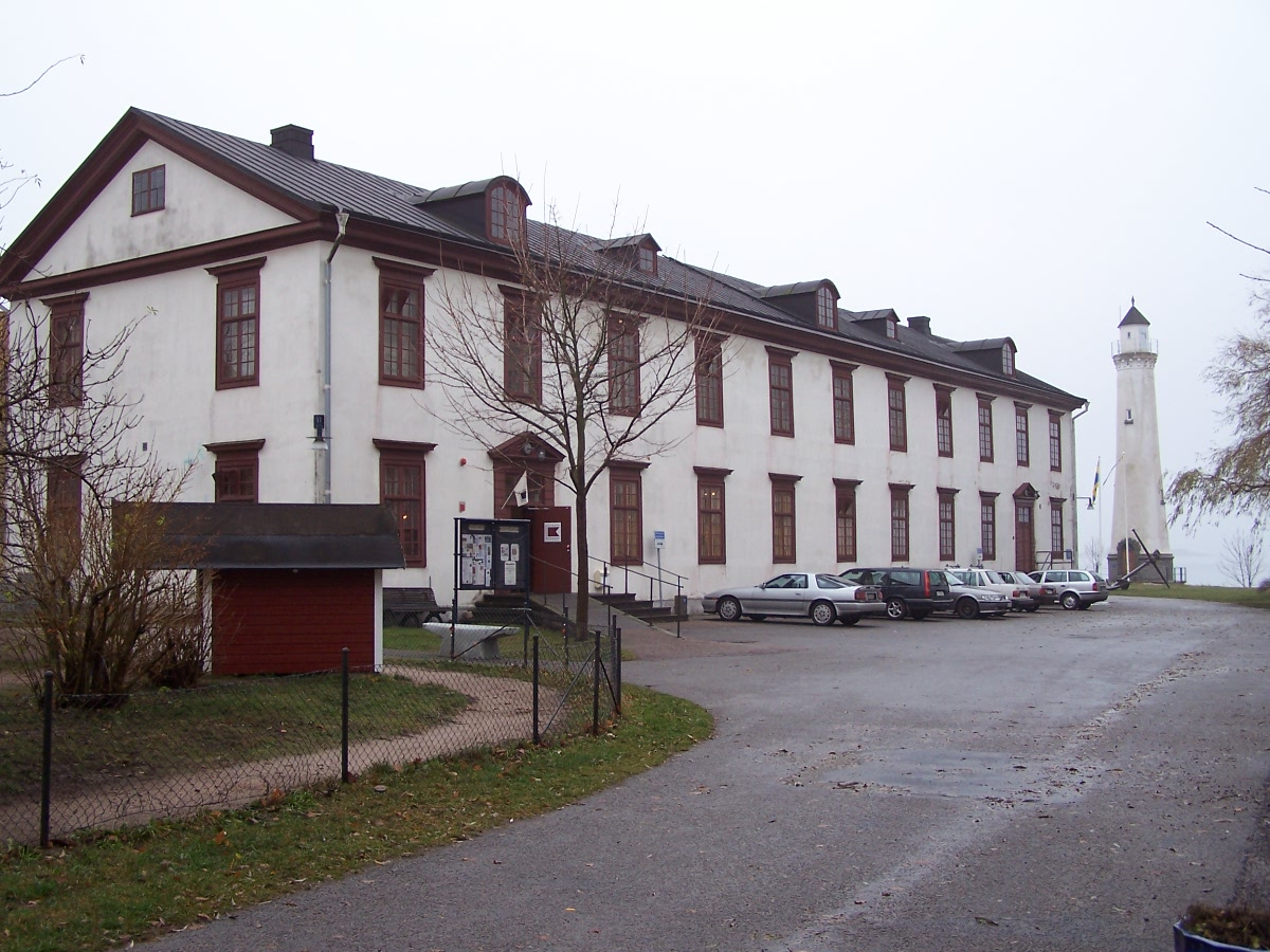 Boatswain barracks, Stumholmen, Karlskrona